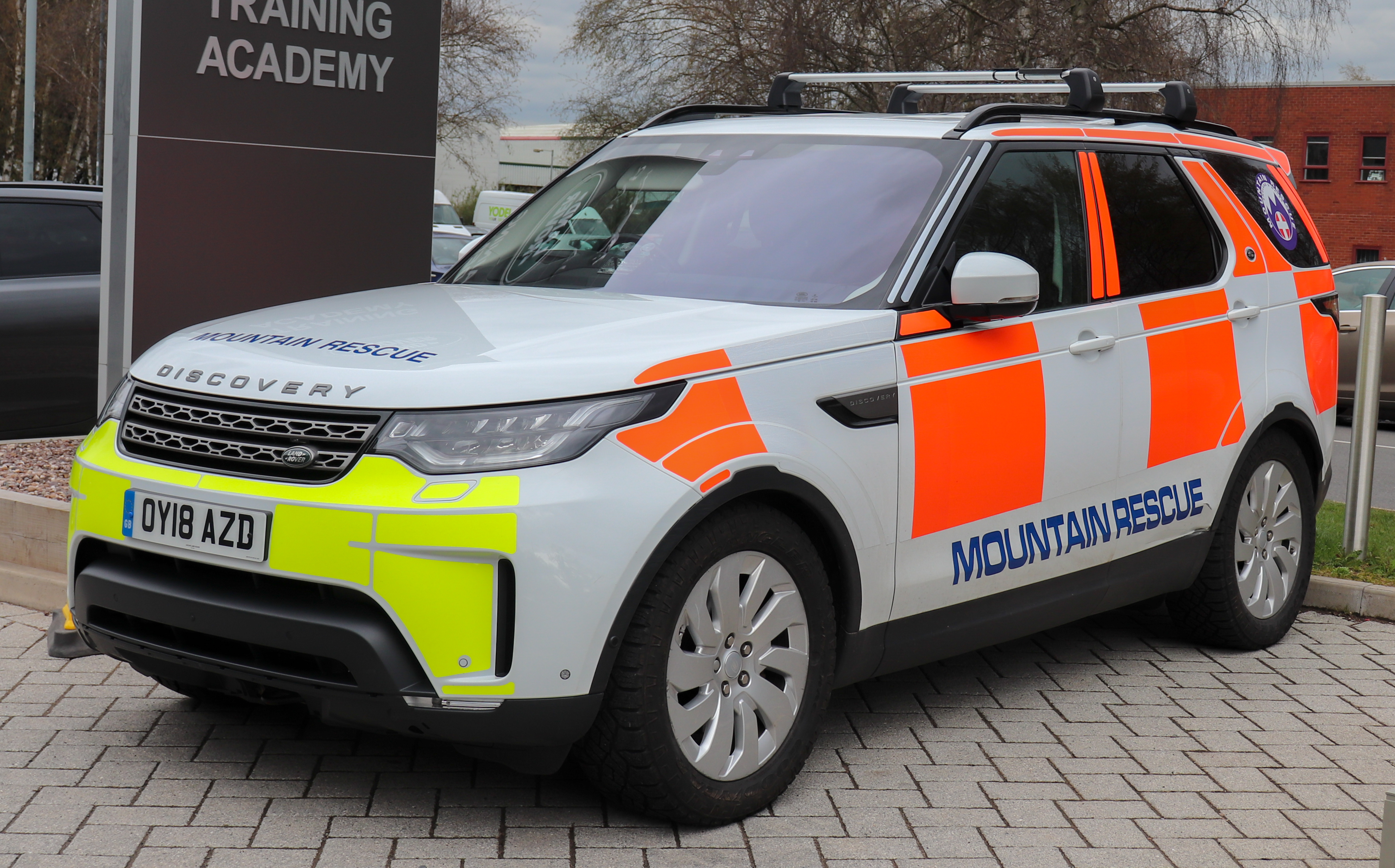 2018 Land Rover Discovery SE SD4 Automatic Mountain Rescue Unit 2.0 Taken in Leamington Spa